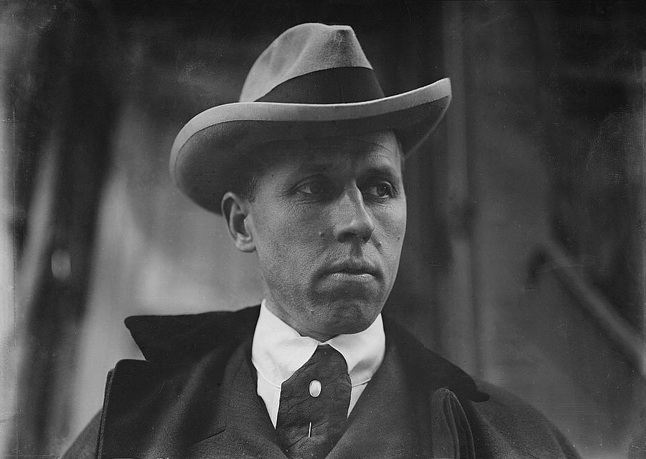 Bain News Service,, publisher. Edward Holton James [no date recorded on caption card] 1 negative : glass ; 5 x 7 in. or smaller. Notes: Title from unverified data provided by the Bain News Service on the negatives or caption cards. Forms part of: George Grantham Bain Collection (Library of Congress). Format: Glass negatives. Repository: Library of Congress, Prints and Photographs Division, Washington, D.C. 20540 USA, General information about the Bain Collection is available at Persistent URL: Call Number: LC-B2- 2675-12